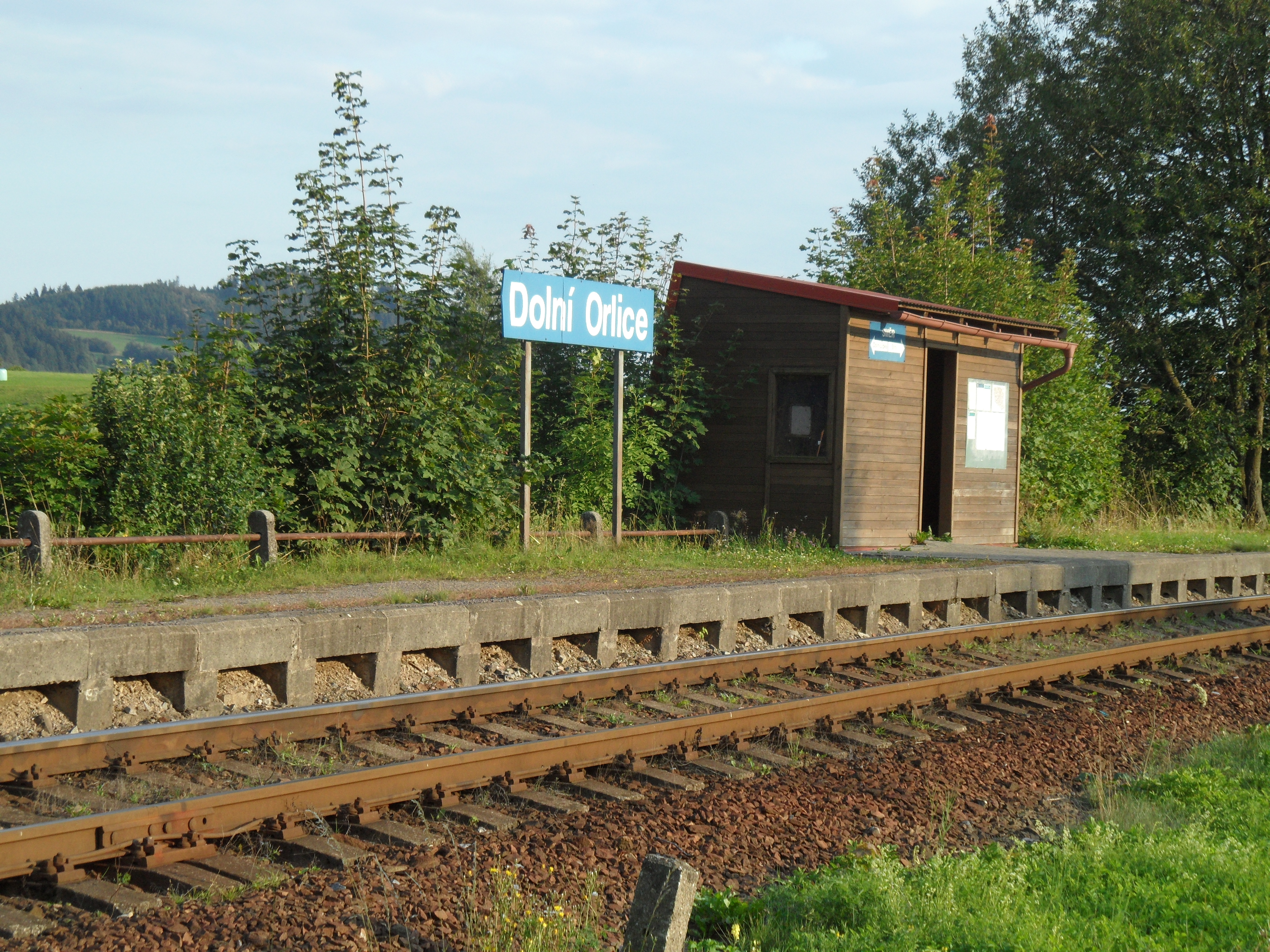 Dolní Orlice A. Railway Station (Railway line 024 Ústí nad Orlicí – Lichkov – Štíty/Międzylesie), Ústí nad Orlicí District, the Czech Republic.